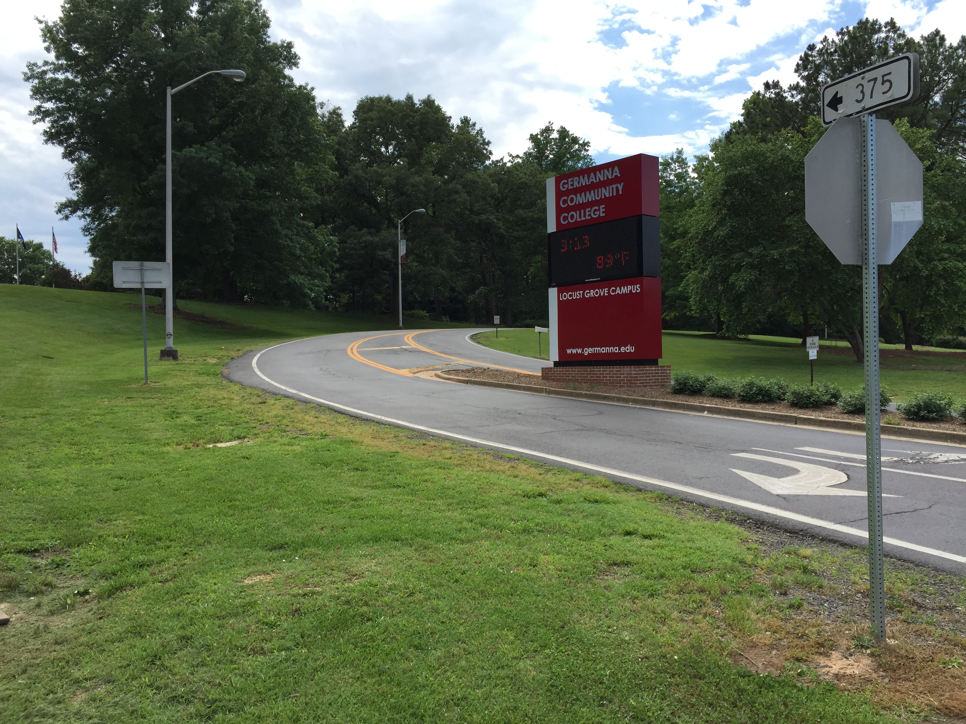 View west at the east end of Virginia State Route 375 (College Drive) at Virginia State Route 3 (Germanna Highway) at the Germanna Community College Locust Grove Campus in Germanna Bridge, Orange County, Virginia